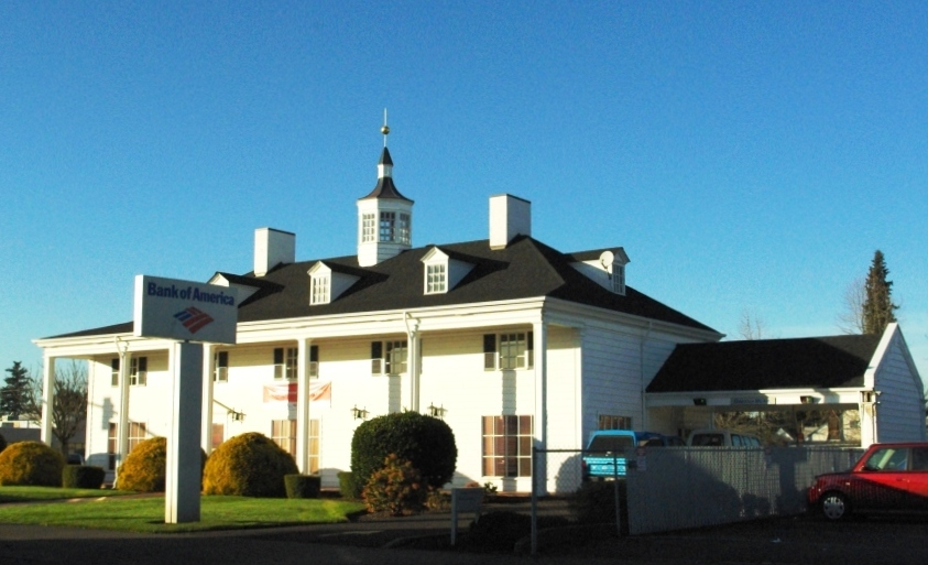 Bank of America branch in Hillsboro, Oregon, USA. Formerly a Benj. Franklin Savings and Loan branch. Bank of America closed this branch in August 2017.